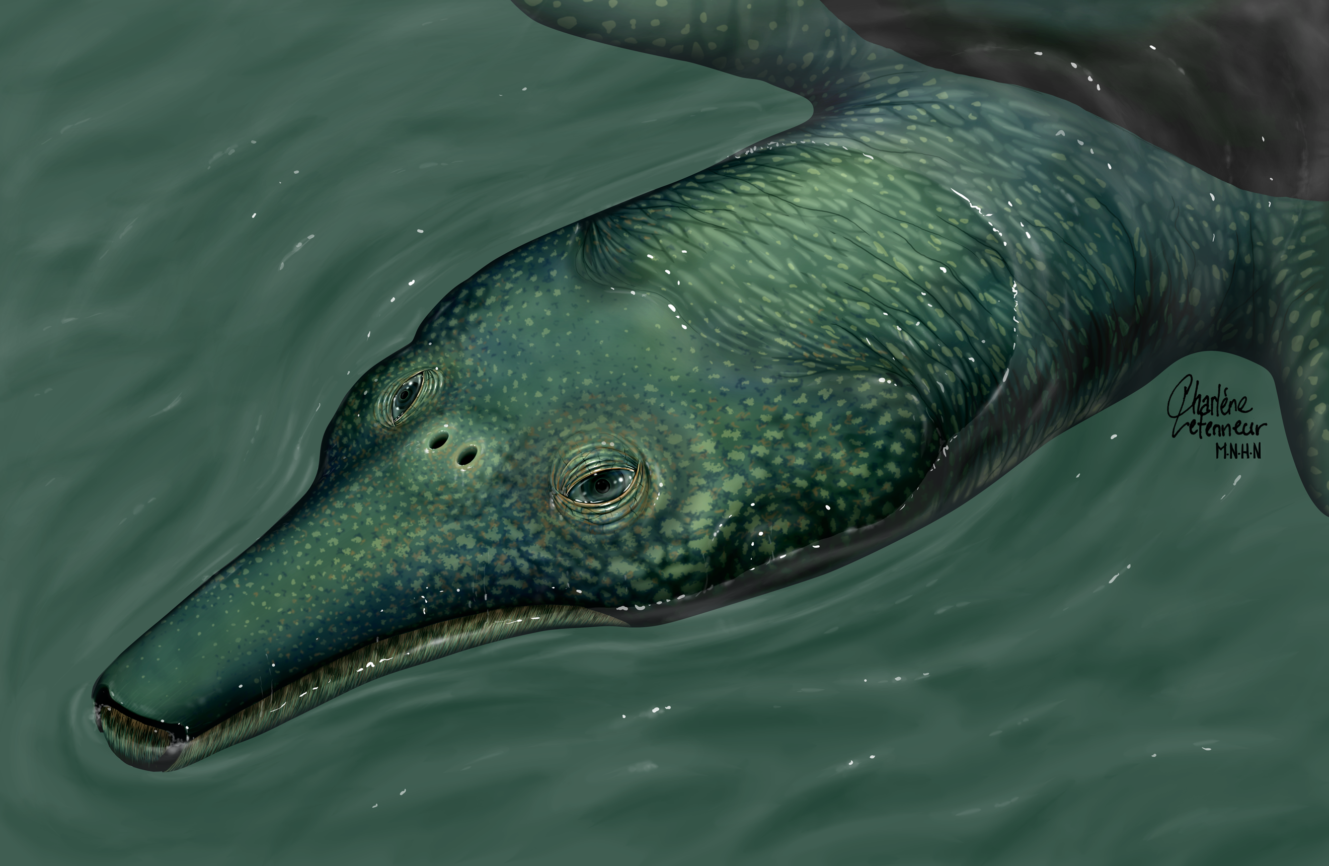 Ocepechelon bouyai gen. et sp. nov., life reconstruction. (Published with the permission of C. Letenneur/MNHN under a CC-BY license).